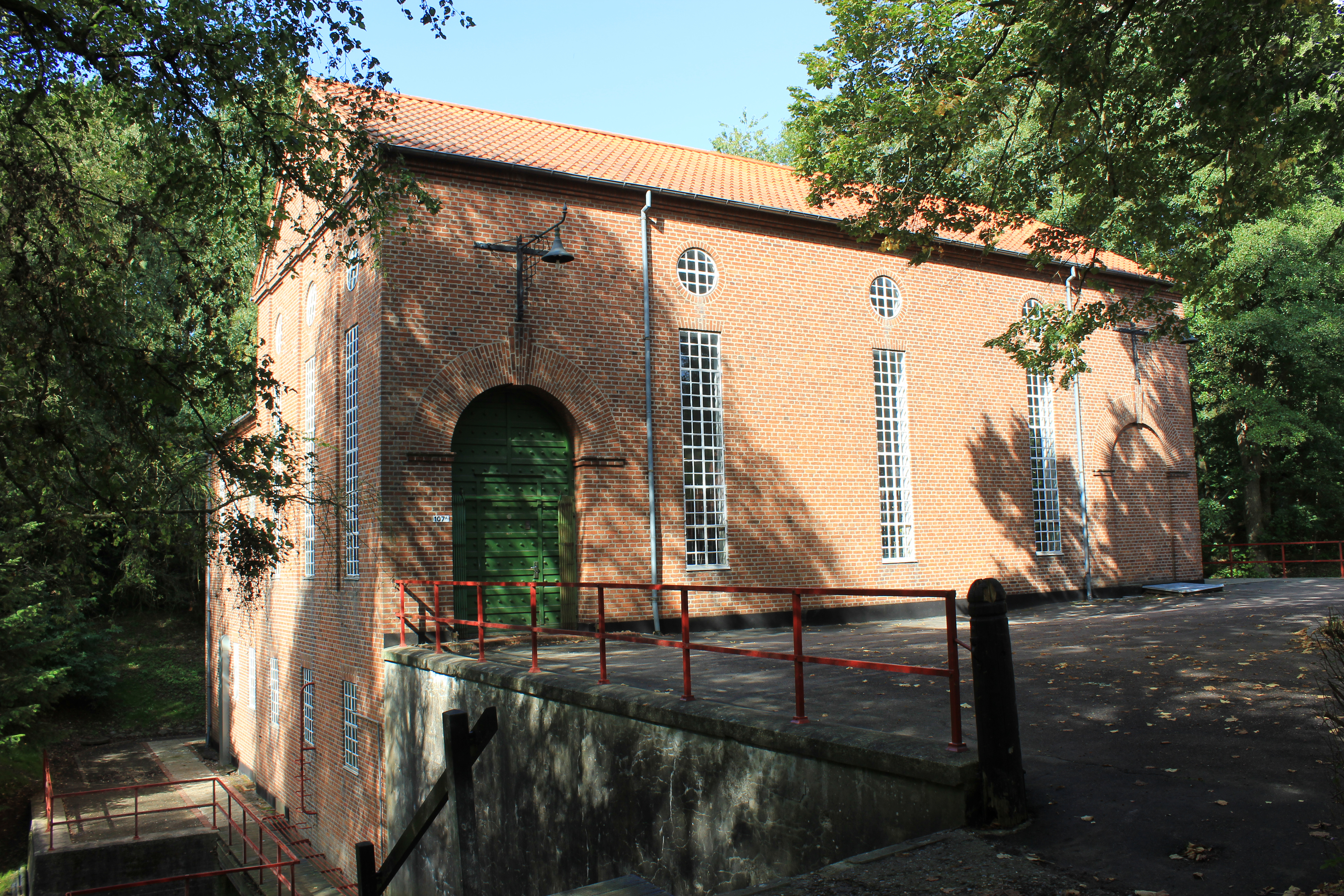 Harteværket is a hydroelectric plant in Harte,Kolding, which was built in the years 1918-1920 and is Denmark's first major hydroelectric plant. Harteværket started towards the end of the first World War, in order to meet the growing need for electricity. The architect was Ernst Petersen and construction workers employed around 350 workers. The water for the plant comes from Donssøerne, which was formed by the damming up Vester Nebel stream and Alminde stream. The water is running from Donssøerne down to the plant's turbines through channels and a 80 meter long tube with a decrease of 25.4 meters. Flowing 6,000 liters of water through the pipes every second. After the natural recreation of Vester Nebel stream in 2008, the water supply to Harteværket was reduced by 60%, but still produced electricity. Harteværket, which today serves as a working museum. The original turbines from 1920 produces 1.8 kWh. hour, depending on the amount of water. In 1992, it supplied about 1% of the electricity consumption in Kolding. Most of the equipment inside, is from the time it was buildt.